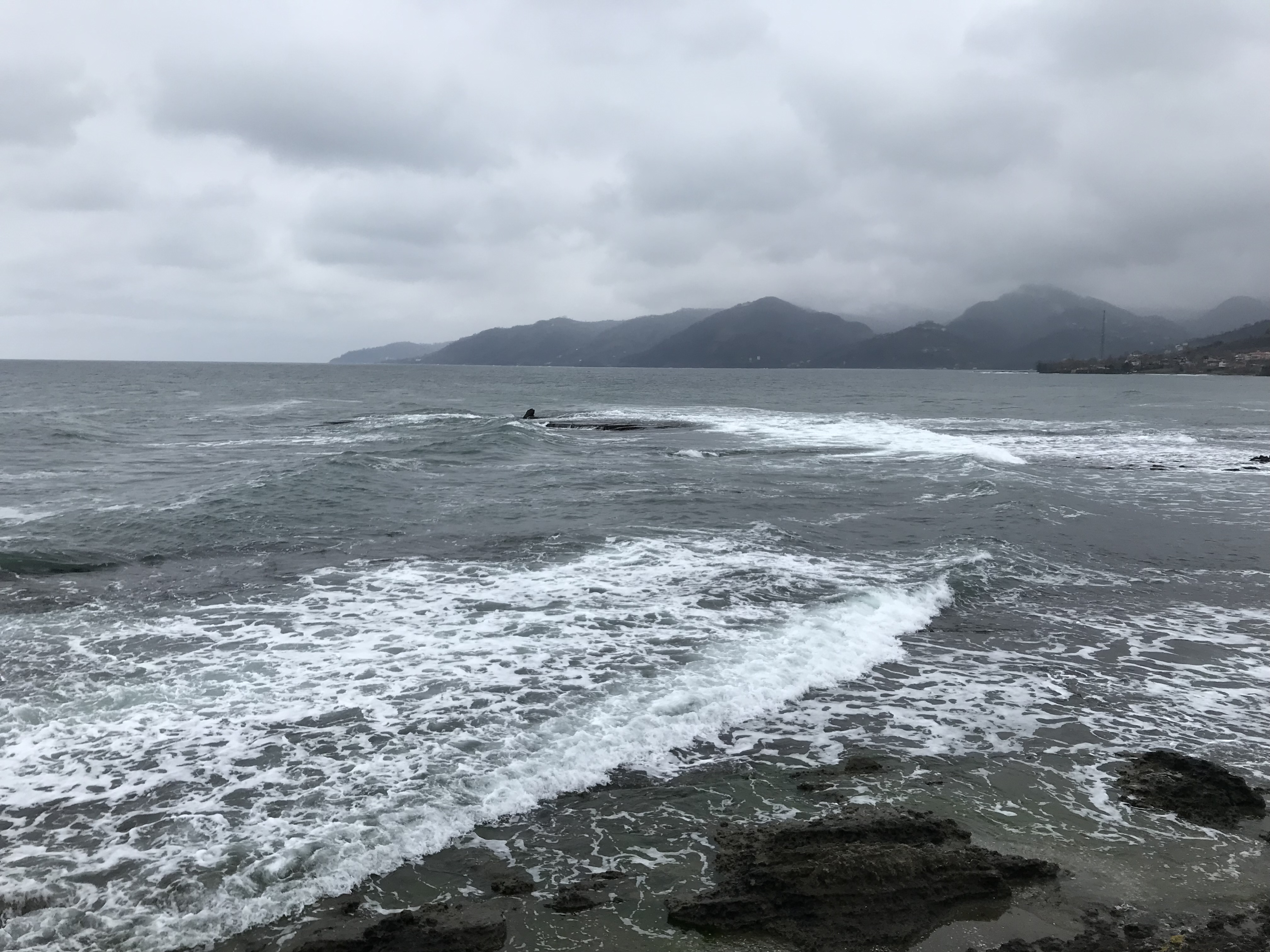 A partial view of Cape Jason. Perşembe - Ordu, Turkey.